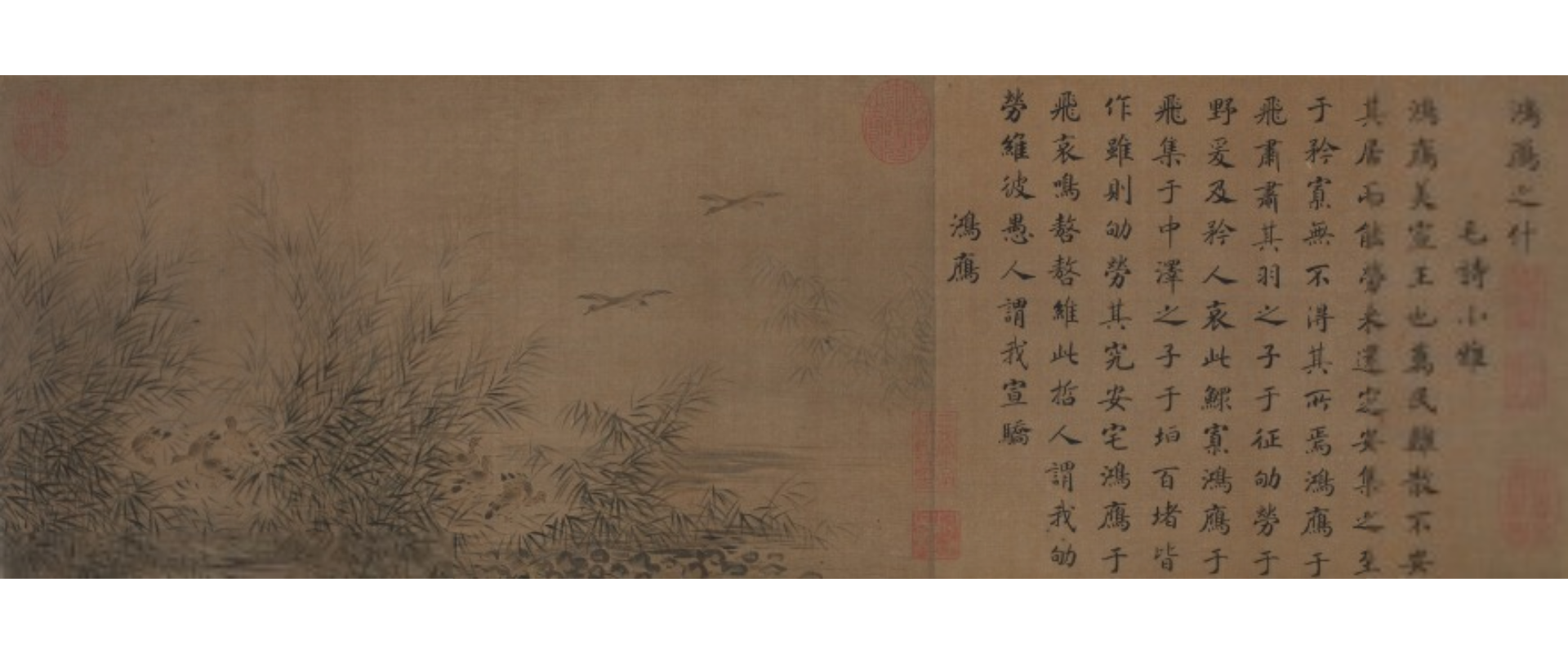 Ma Hezhi (Chinese, ca. 1130–ca. 1170) Calligrapher: Emperor Gaozong (Chinese, 1107–1187, r. 1127–1162) Period: Southern Song dynasty (1127–1279) Date: 12th century Medium: Handscroll in six sections; ink and color on silk Dimensions: Overall with mounting: 12 3/4 x 513 3/4 in. (32.4 x 1304.9 cm) Credit Line: Edward Elliott Family Collection, Gift of Douglas Dillon, 1984 Accession Number: 1984.475.1